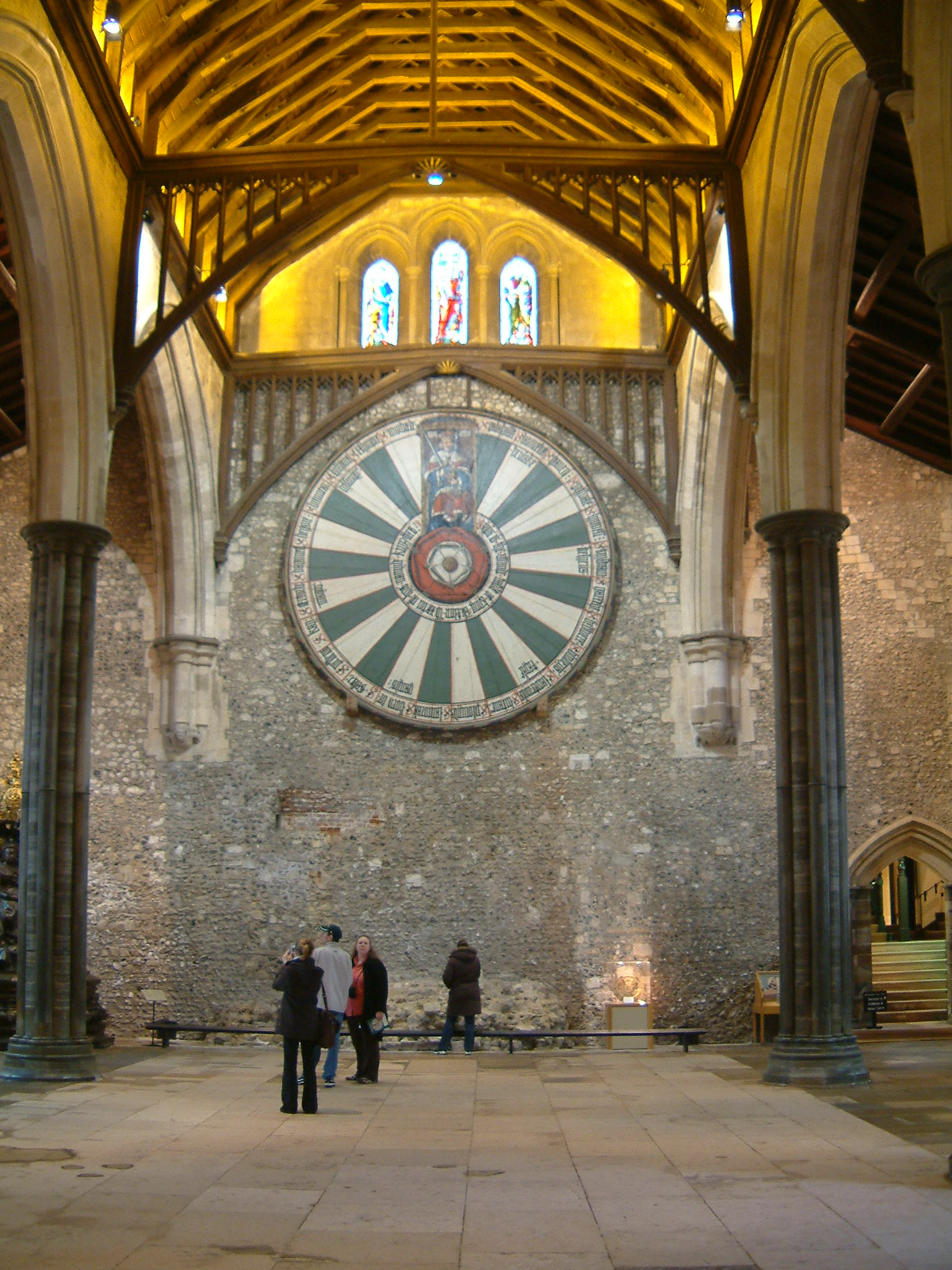 Interior of the Great Hall, Winchester Castle, Hampshire, England, looking west and featuring the Winchester Round Table